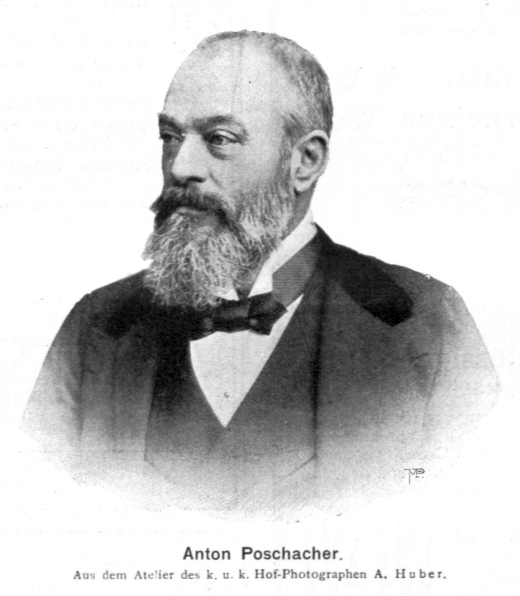 Portrait of Anton Poschacher (1841–1904), Austrian entrepreneur and a vicepresident of a horse-racing club.